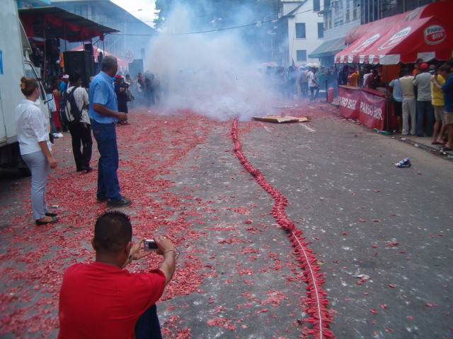 Fire-cracker chain in a Suriname marketplace